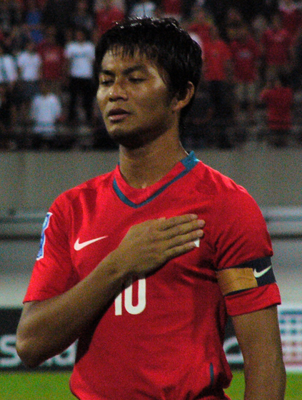 Singapore vs Lebanon international football match